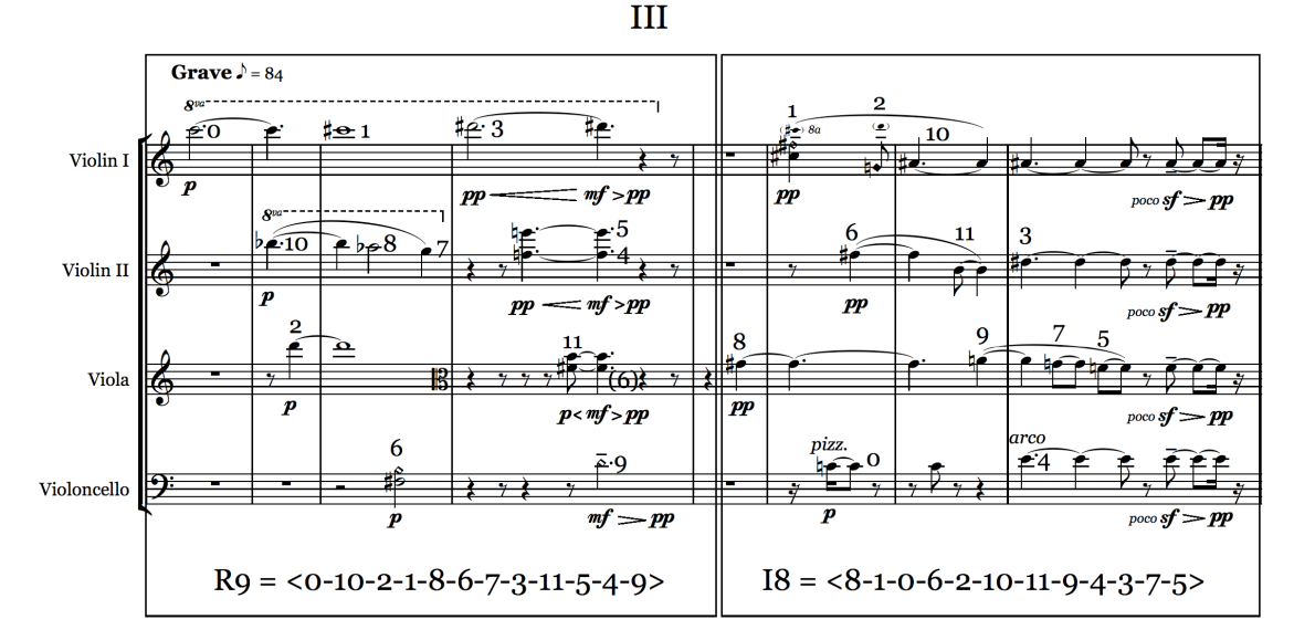 Example from the 3rd movement of Gerhard's Quartet for strings n. 1: relation between series and their transformations